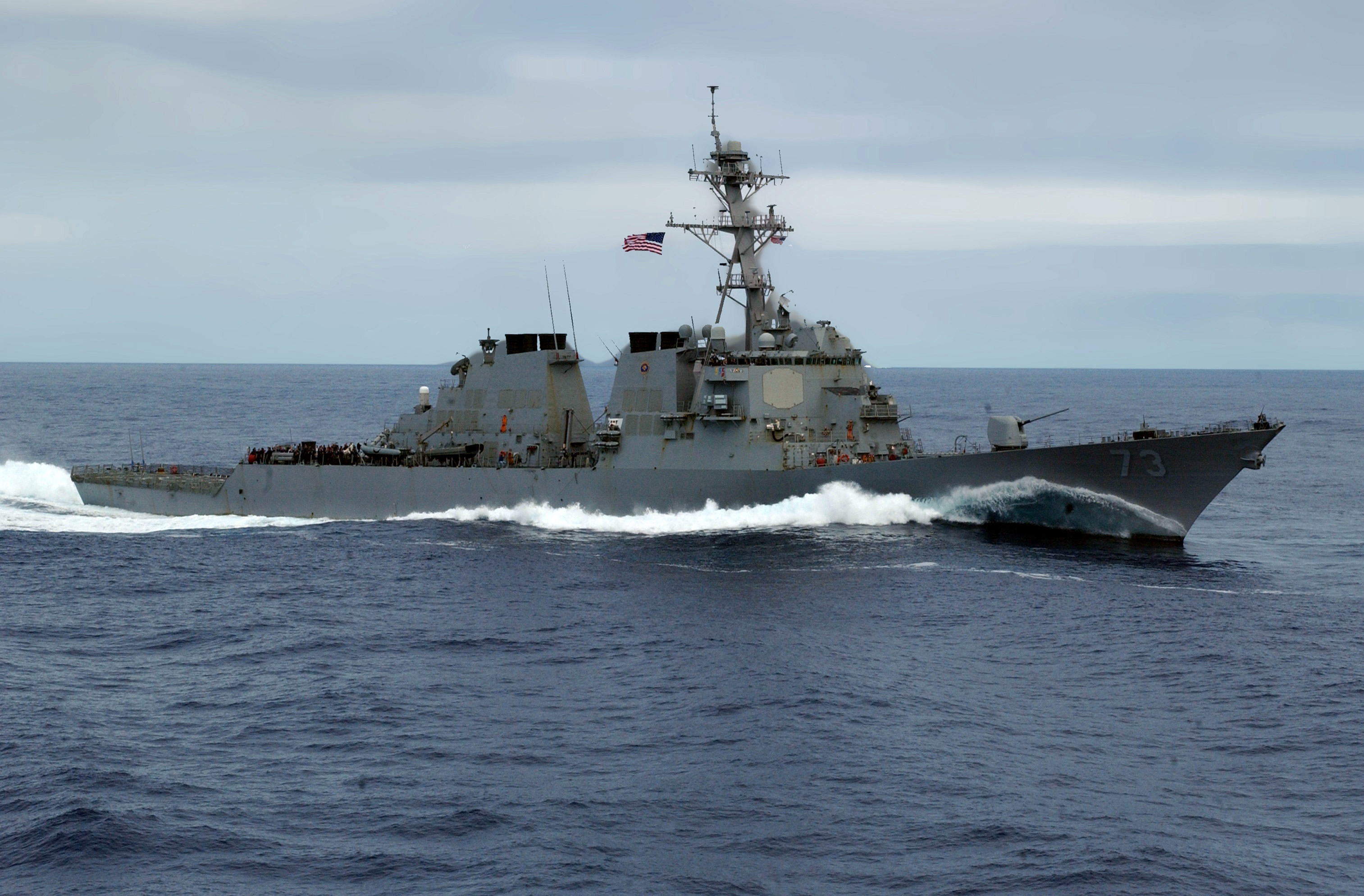 060703-N-7730P-018 Pacific Ocean (July 3, 2006) - While performing a combat demonstration for Nimitz-class aircraft carrier USS Ronald Reagan (CVN 76) Sailors and their families, the guided-missile destroyer USS Decatur (DDG 73) displays impressive maneuverability while executing a hairpin turn. Reagan and embarked Carrier Air Wing One Four (CVW-14) are completing a regularly scheduled deployment in support of the global war on terrorism and maritime security operations.